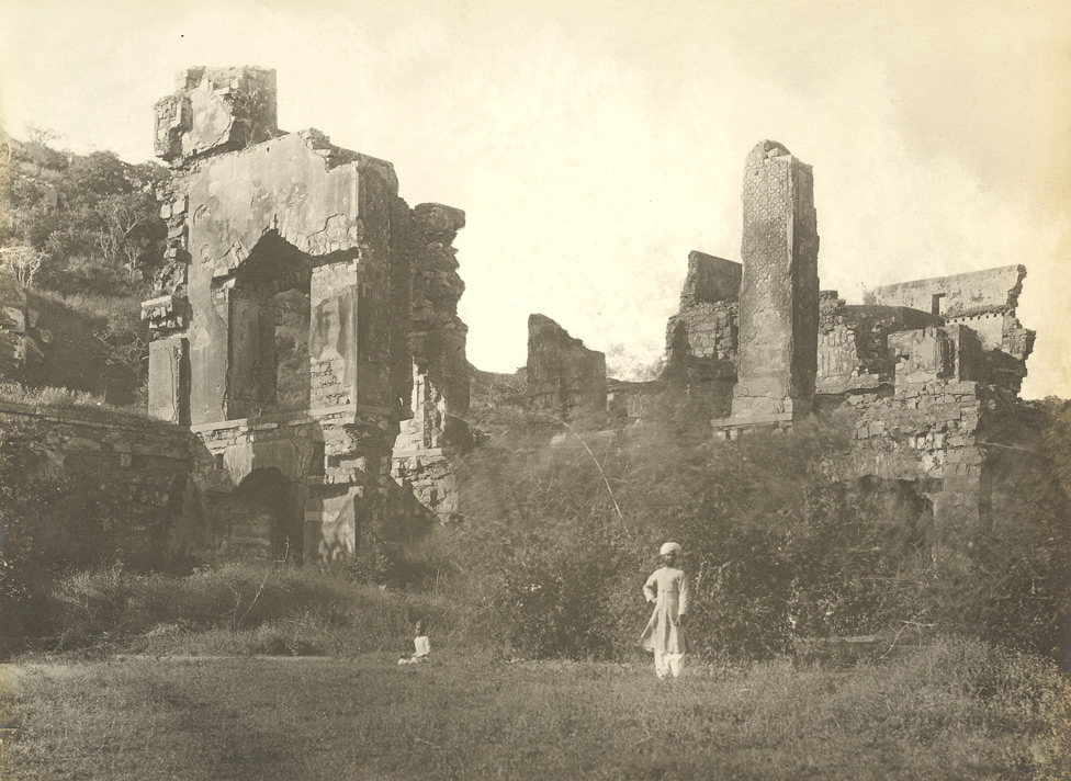 Upstairs at the palace, Kondapalli, Krishna District